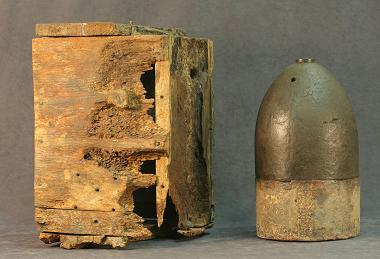 a shell and box recovered from CSS Alabama site, which has been conserved and is now being curated at the Underwater Archaeology Branch, Naval History & Heritage Command.